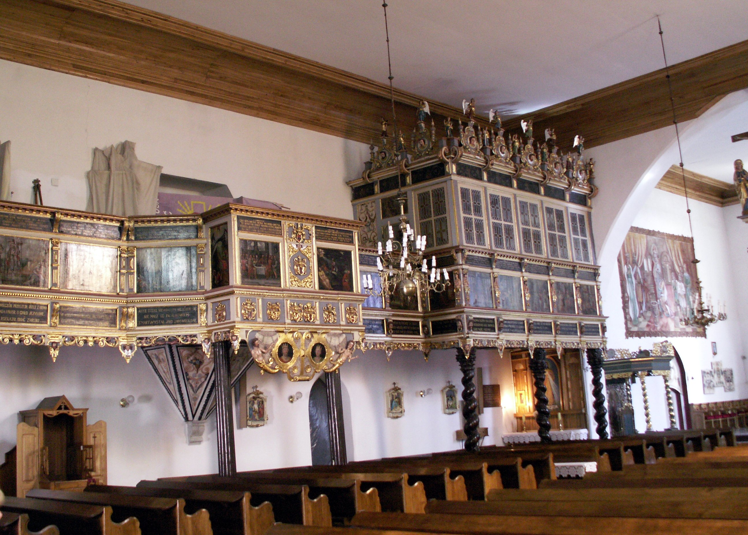 Susz, Poland